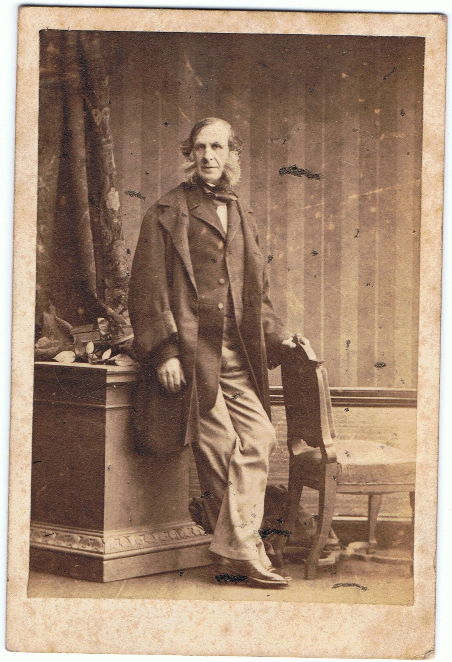 scan of 1861 photo of William Fane de Salis, (27 October 1812 – 3 August 1896), by Camille Silvy. Scan by R. de Salis, October 2007. Source: Fane de Salis collection & MSS. Rodolph 10:41, 19 October 2007 (UTC)